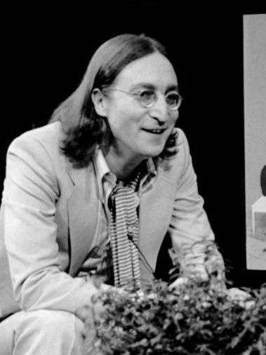 Publicity photo of John Lennon and host Tom Snyder from the television program Tomorrow. Done in 1975, this was the last television interview Lennon gave before his life ended in 1980.